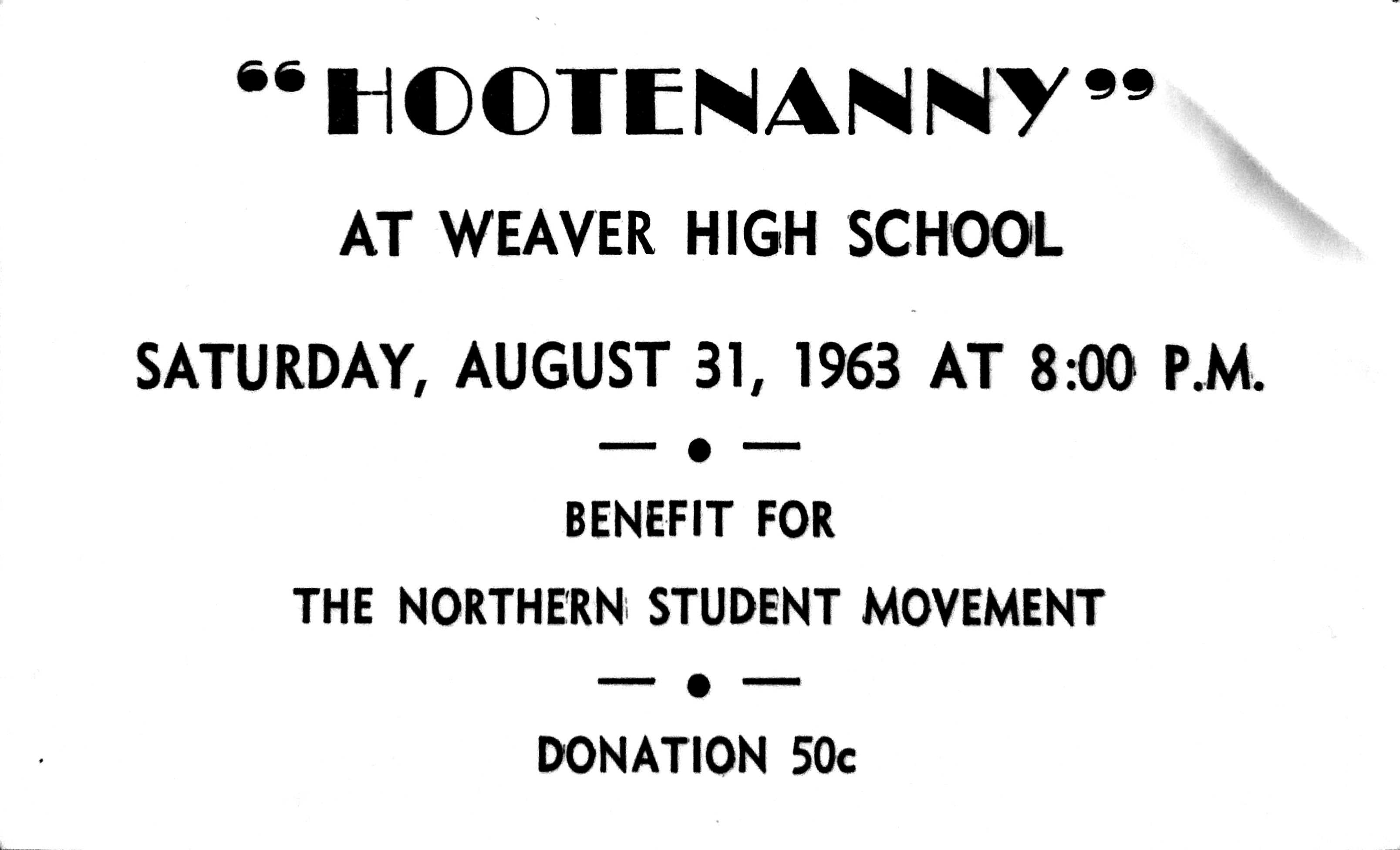 Fundraiser card for a benefit